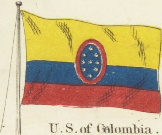 U.S. of Colombia. Johnson's new chart of national emblems, 1868.jpg Johnson's new chart of national emblems. Print showing the flags of various countries, those flown by ships, and the "Signals for Pilots." In the top left corner is the "United States" 37-star flag, in the top right corner is the "Royal Standard of the United Kingdom Great Britain & Ireland"; in the bottom left corner is the "Russian Standard" and in the bottom right corner is the "French Standard." The flags on this sheet differ slightly from those on another sheet numbered 4 [top left] and 5 [top right].